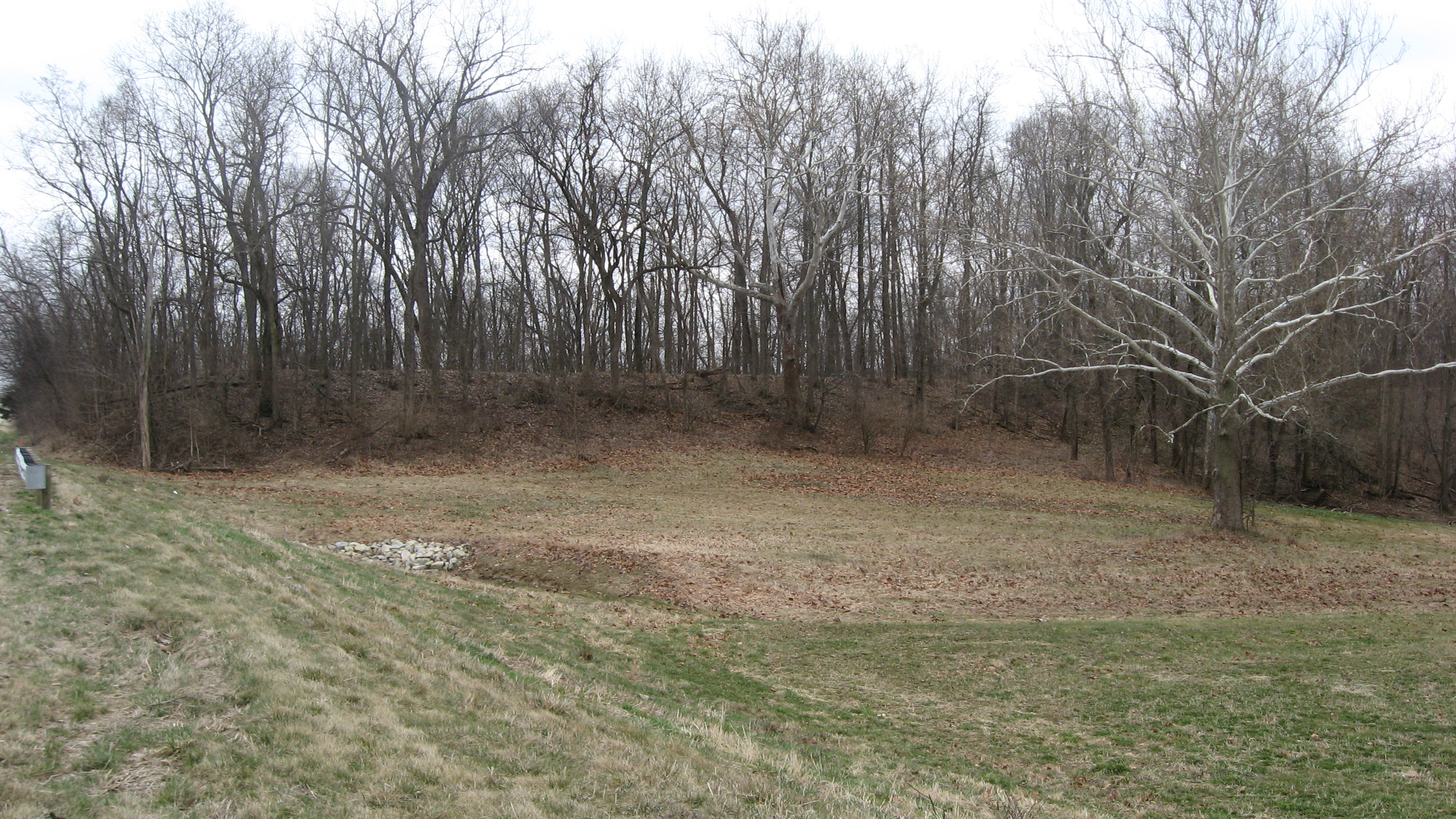 Northern side of the eastern end of the eastern part of the Turtle Creek Embankment, seen from Hardin-Wapakoneta Road. The mile-long embankment and a stone culvert were built to carry the Miami and Erie Canal over Turtle Creek west of Newbern in Washington Township, Shelby County, Ohio, United States. Completed in 1843, the embankment and stone culvert ceased to be used after the great flood of 1913, which permanently ruined the canal. Deterioration led to the demolition of the culvert in the early 1980s. The culvert and embankment were placed on the National Register of Historic Places in 1978 and removed in 1985.